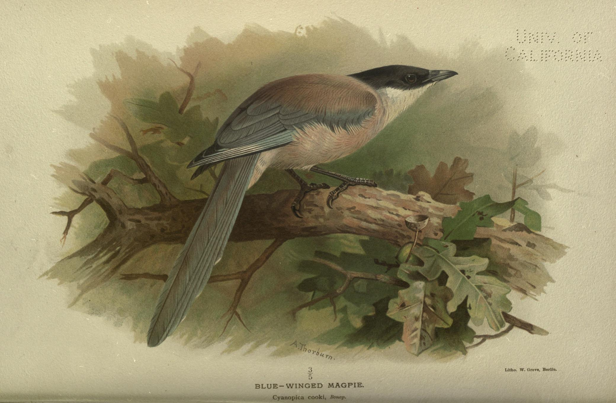 Blue Winged Magpie from Ornithology of Straits of Gibraltar from Lt Col L Howard Irby 1895 which is freely licensed